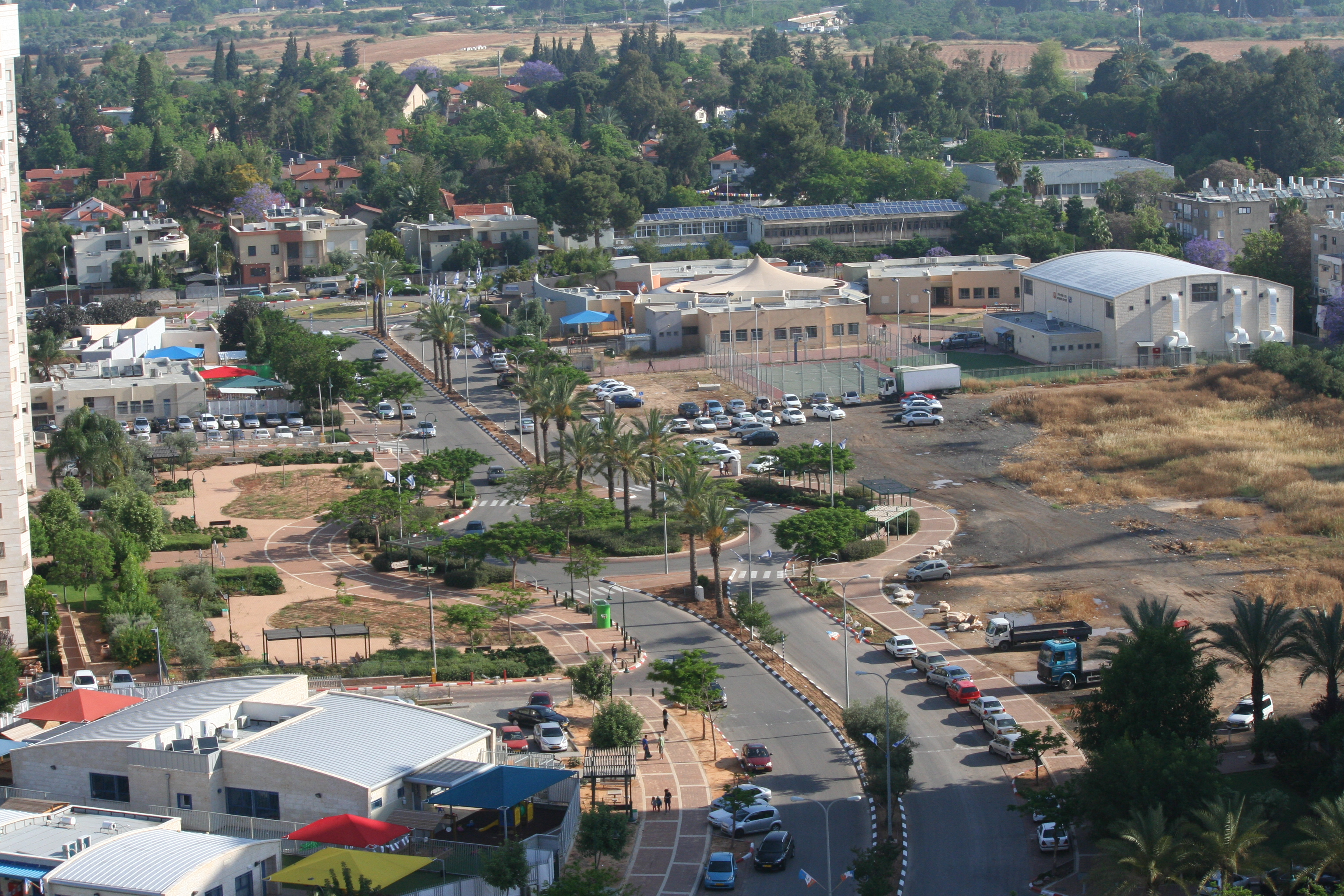 Neve Monosson and Nitzan street on the Eastern edge of Or Yehuda